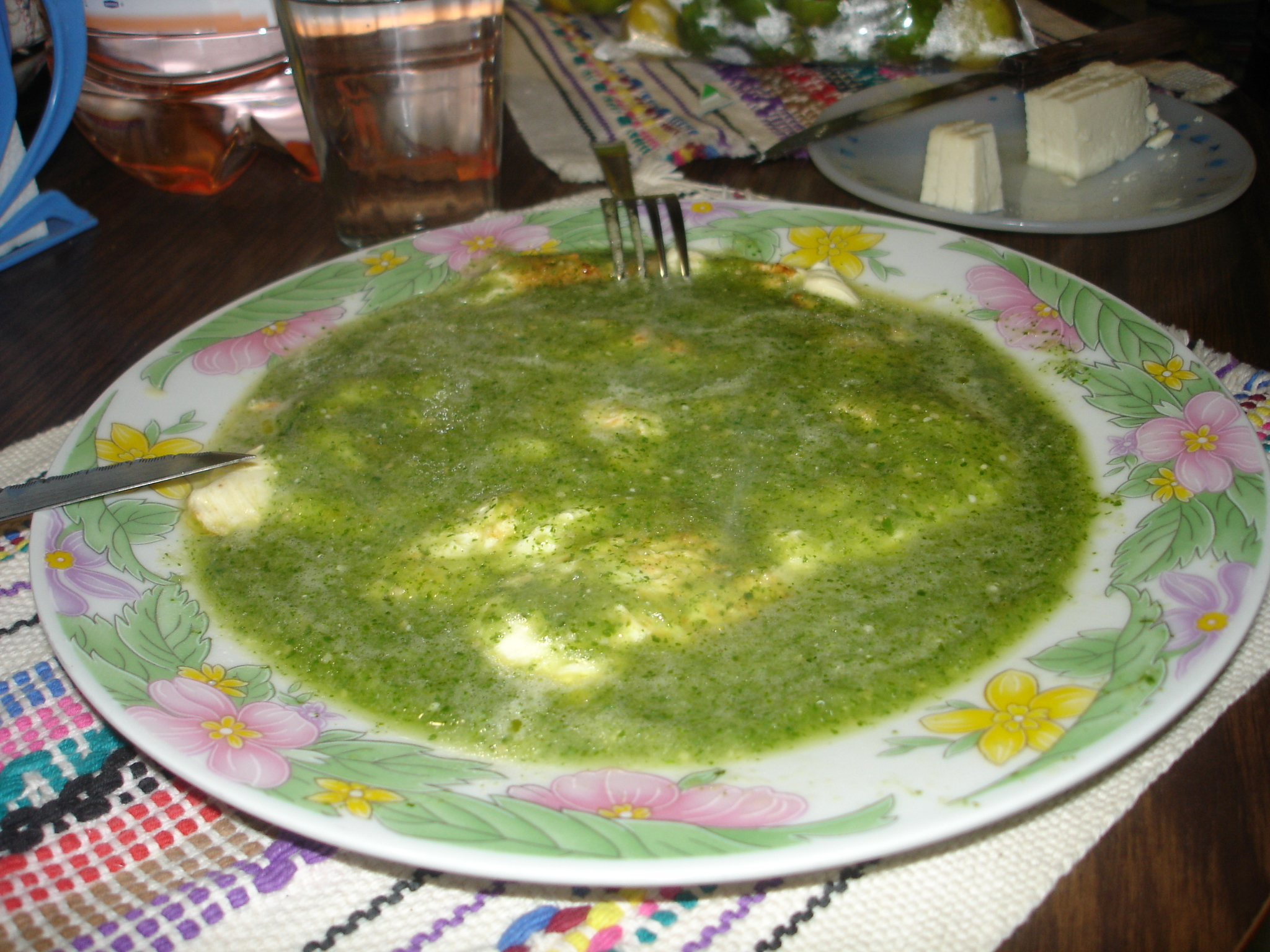 Quesillo cheese in green tomato sauce - Oaxaca, Mexico